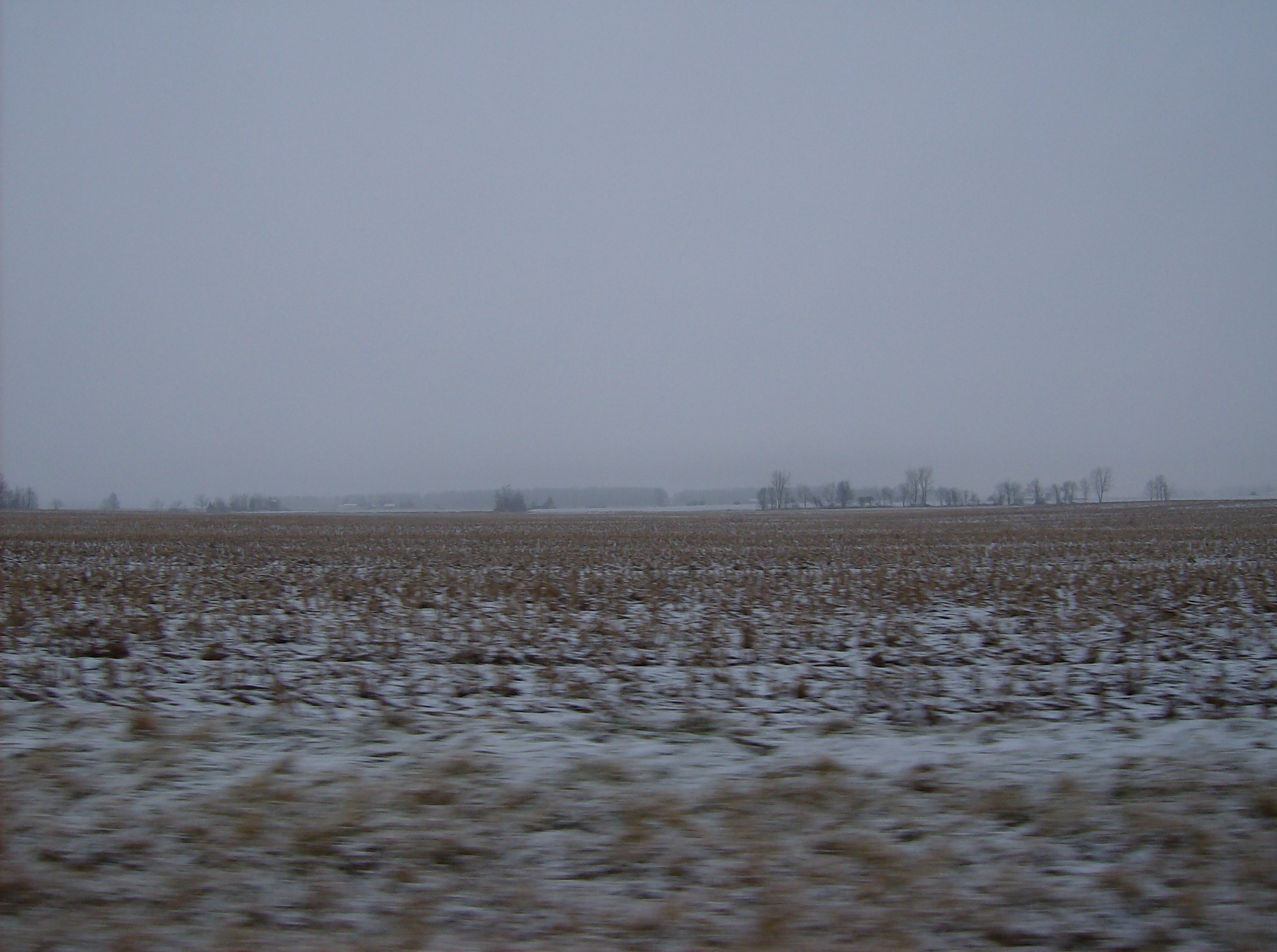 Corn fields in northern Jackson Township, Blackford County, Indiana, United States. Picture taken northward from State Road 26.